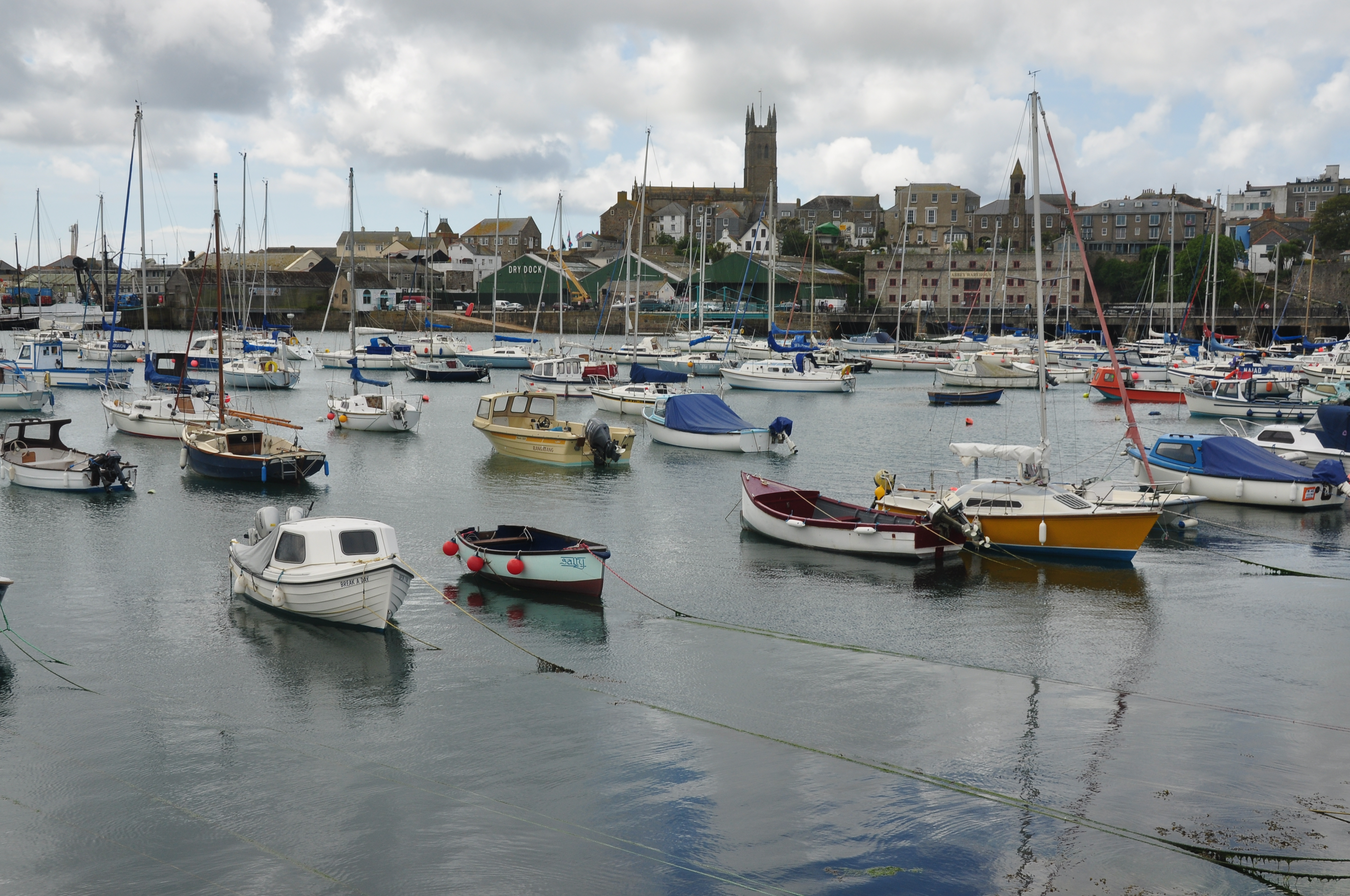 Boats in Penzance harbour